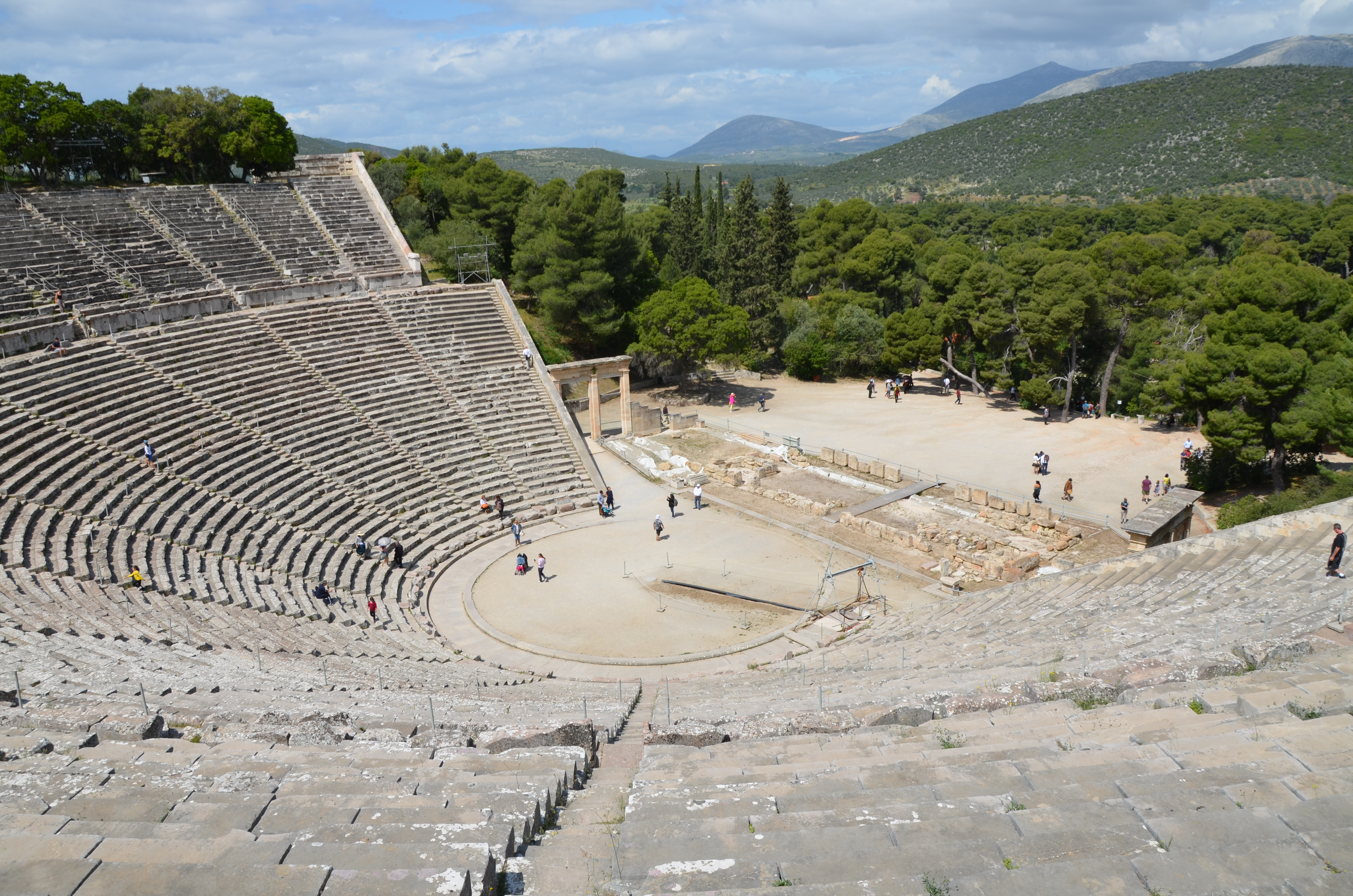 The great theater of Epidaurus, designed by Polykleitos the Younger in the 4th century BC, Sanctuary of Asklepeios at Epidaurus, Greece